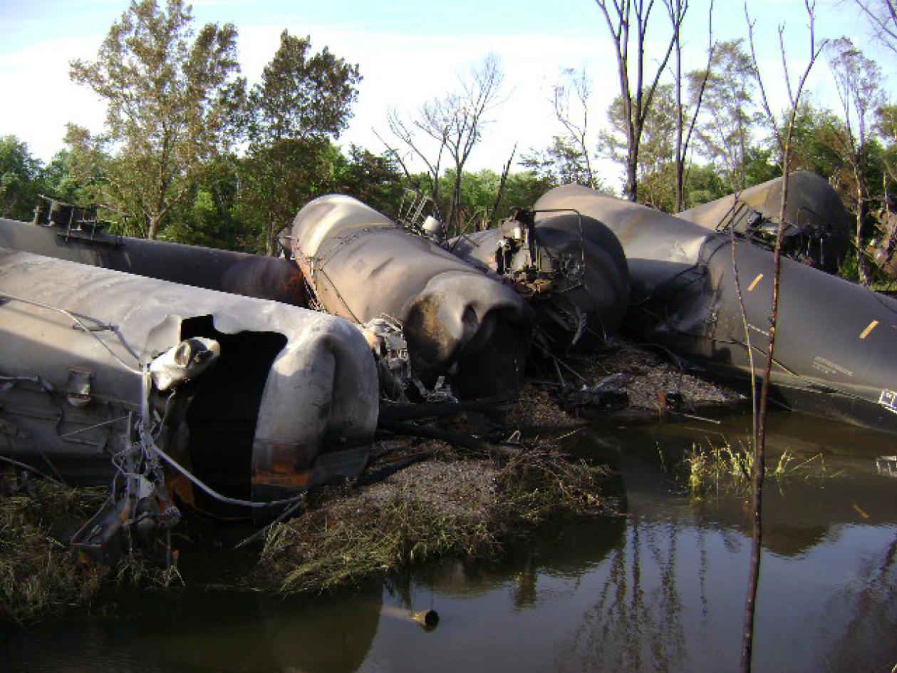 This photograph taken east of the Mulford Road grade crossing in Cherry Valley, Illinois shows some of the piled up DOT-111 tank cars in this accident. Thirteen of the tank cars lost about 324,000 gallons of ethanol due to head and shell breaches, damaged top fittings, or damaged bottom outlet valves. This represents a release of about 75 percent of the product carried in the 15 derailed tank cars in the pileup. This photograph also demonstrates a consequence of this accident in which several of the tank cars came to rest in and near a tributary of the Rock River and released a significant volume of product that resulted in one of the largest fish kills in Illinois history.